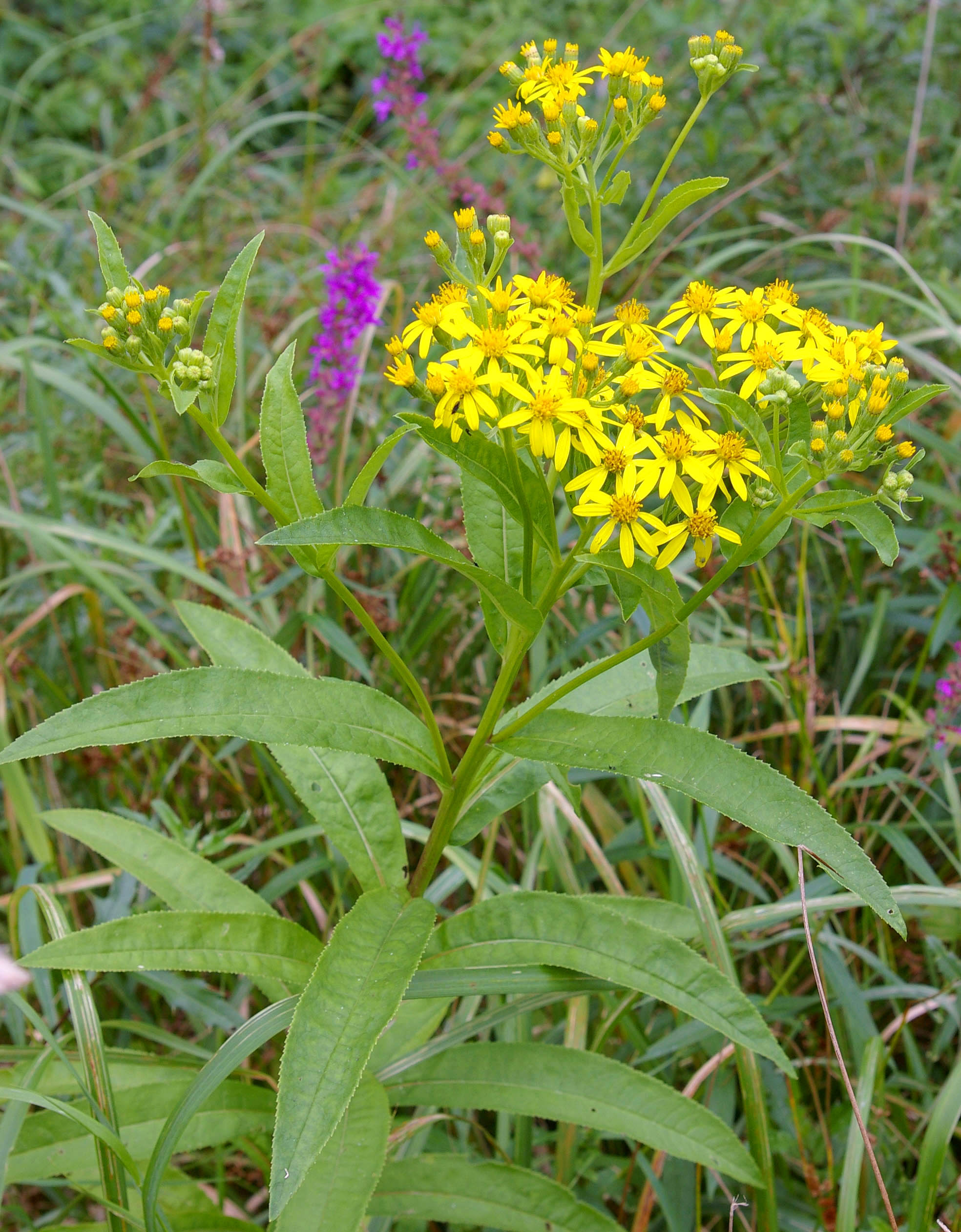 Flowering Senecio sarracenicus, Syn.: Senecio fluviatilis (Asteraceae).